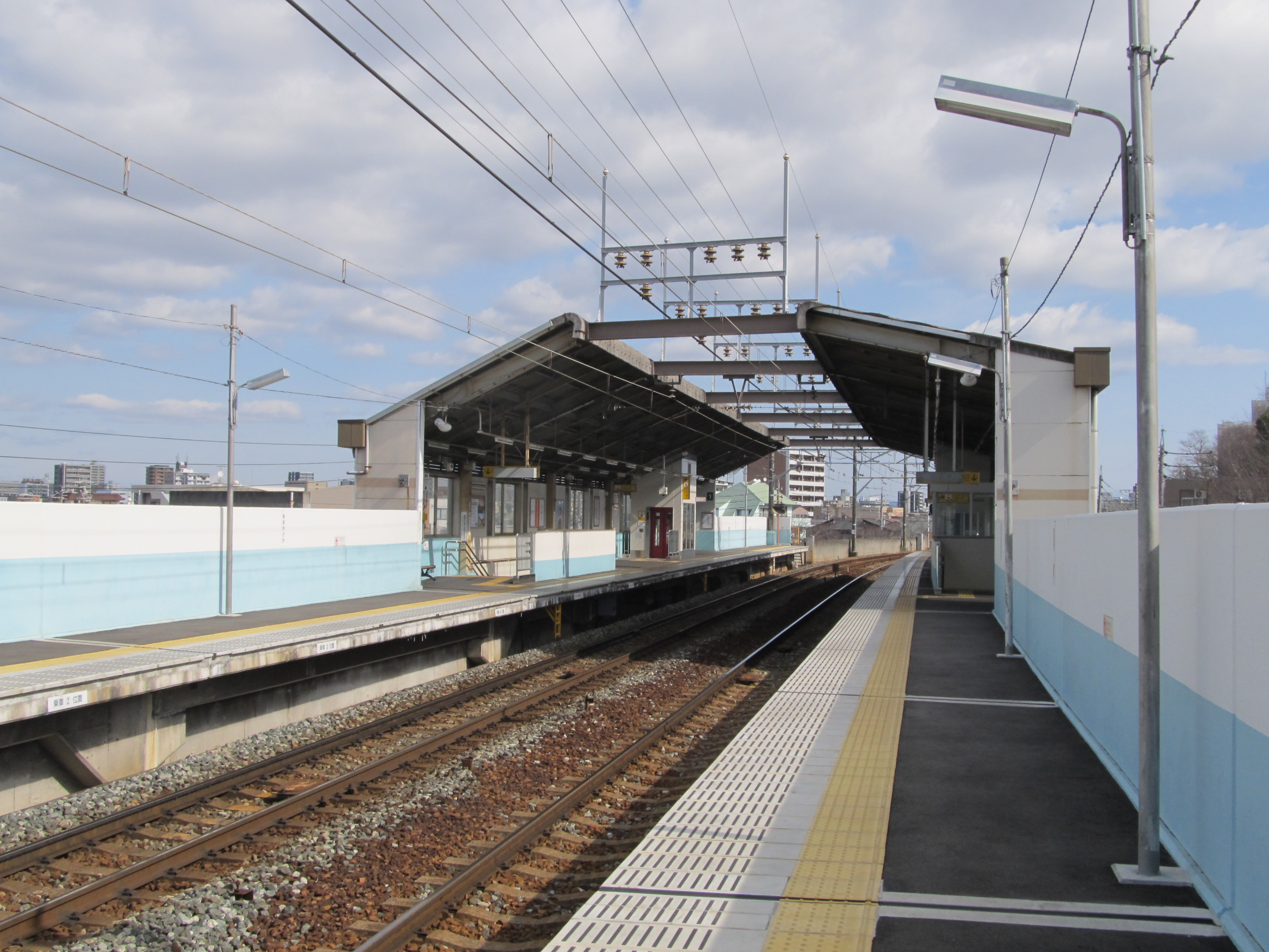 Nagoya Railroad Seto Line Amagasaka Station Platform